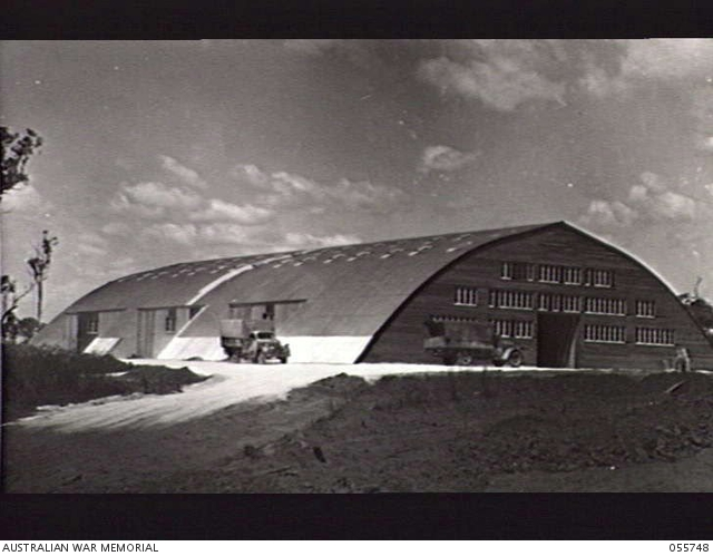 EXTERIOR OF AN "IGLOO" STORAGE SHED OF THE 13TH AUSTRALIAN ADVANCE ORDNANCE DEPOT